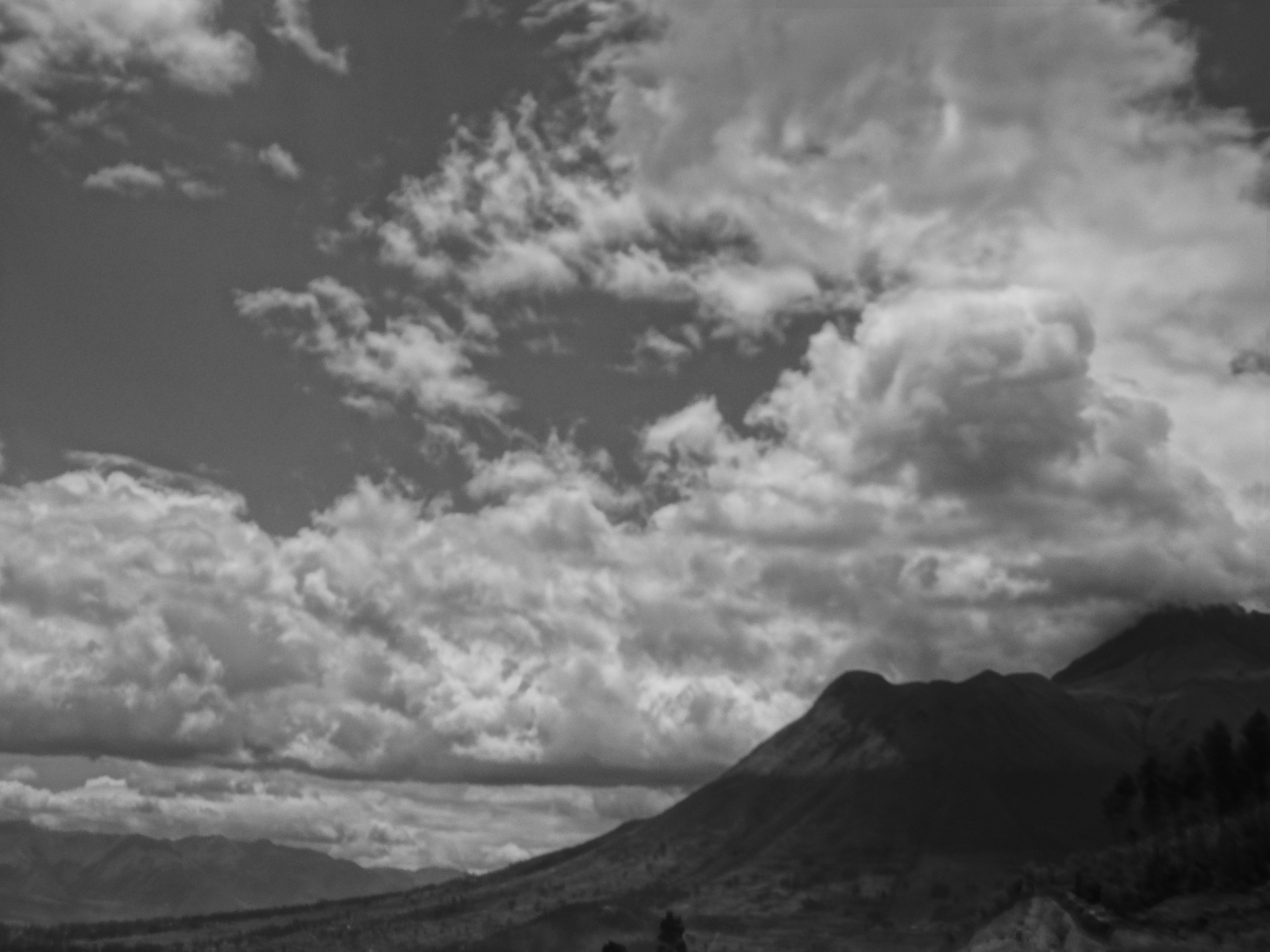 Photographed in black and white with no digital manipulation of this photograph of Imbabura Volcano, Ecuador Andes Mountains. Photographed by David Adam Kess in the Andes Mountains South America.